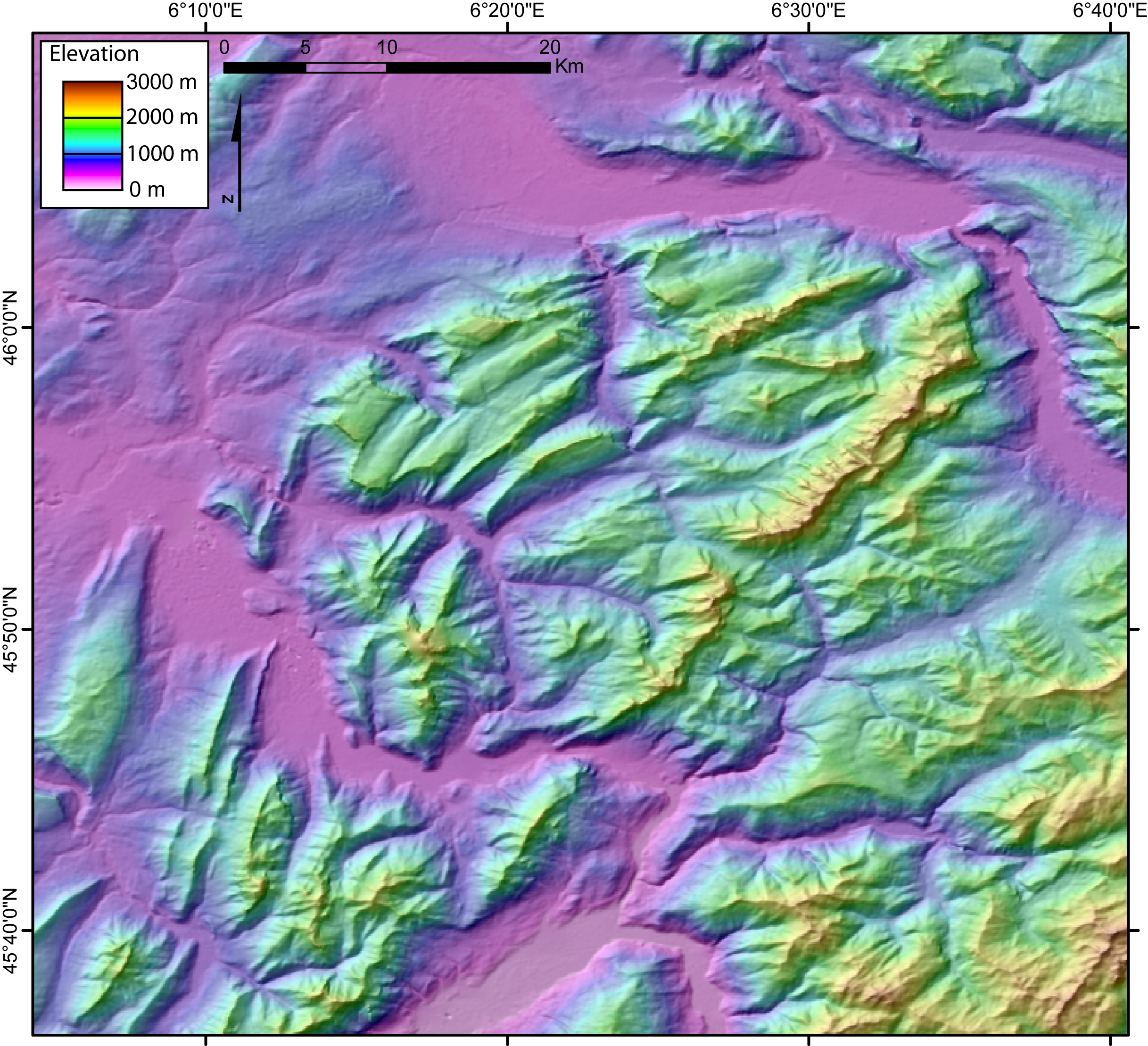 DEM of the Bornes Massifs (french Alps) creted by Jide from the 90m pixel size SRTM dataset.